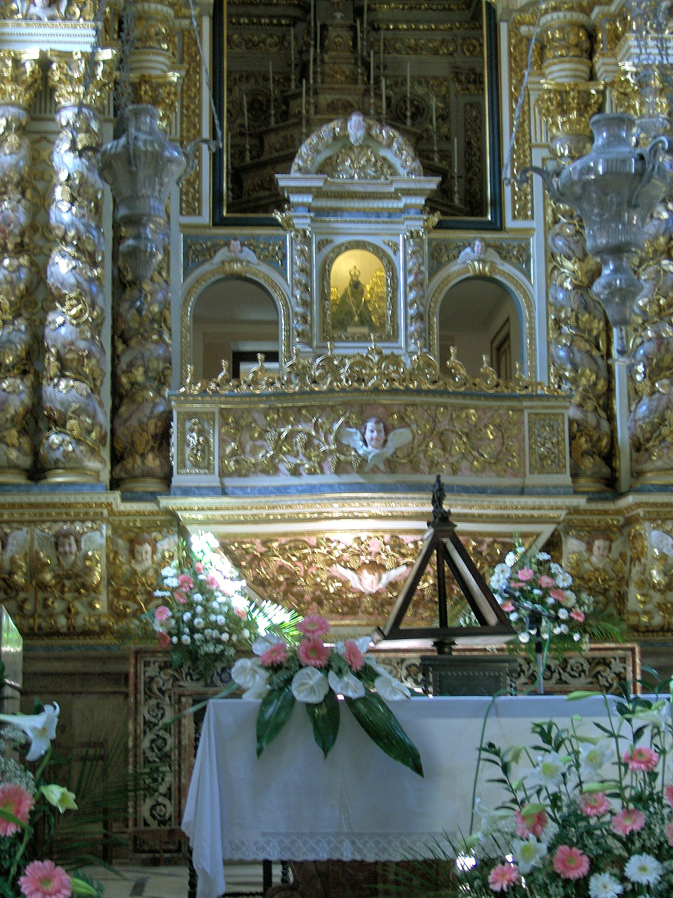 Main altar of the Church of Nossa Senhora da Nazaré in Nazaré, Portugal